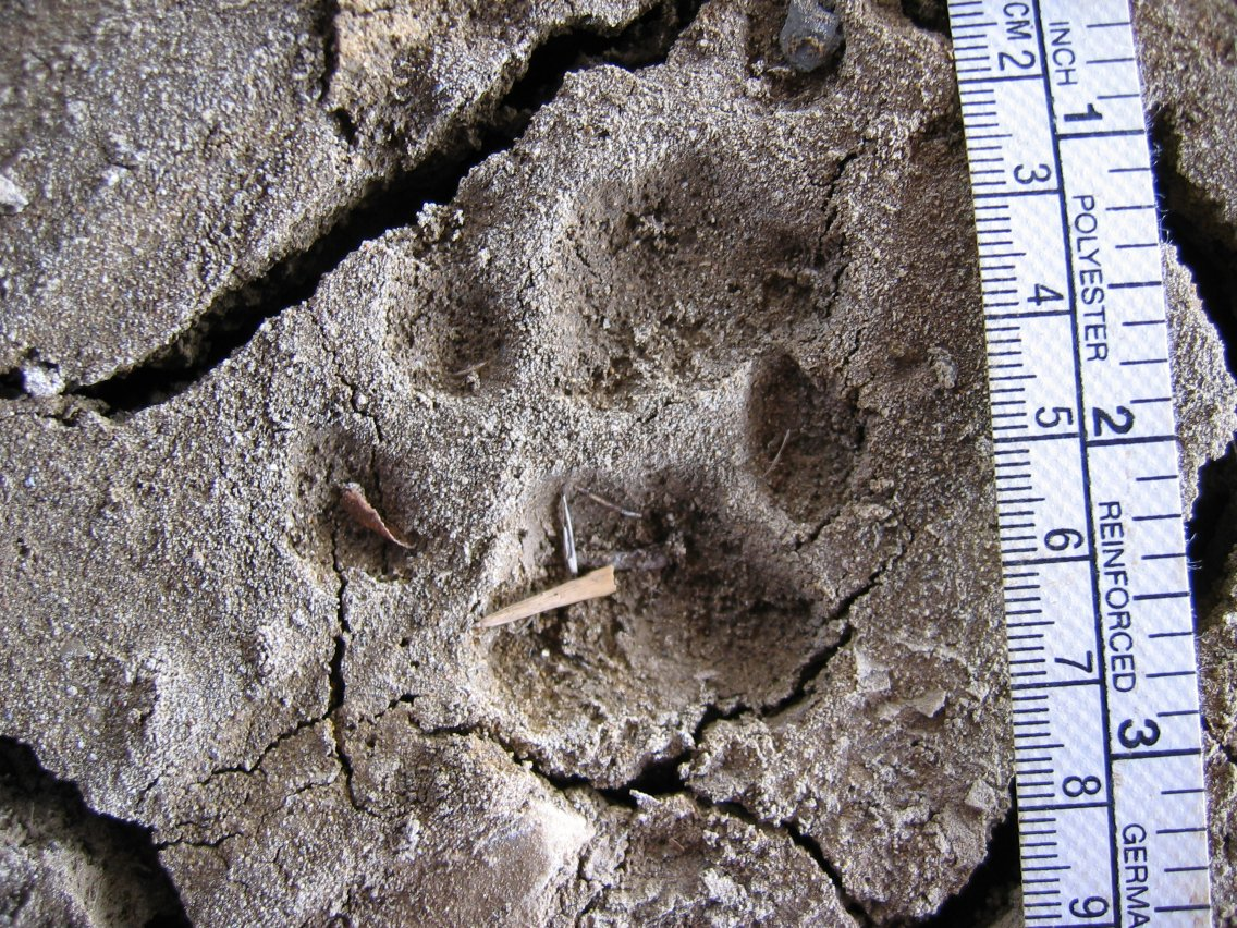 Bobcat tracks in mud. Fore print in photo center. Note the hind print partially covering the fore print (top of photo). Photograph taken by Michael Lensi, 2003.